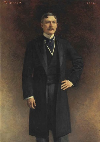 1894 "Portrait of Marshall Orme Wilson" by Léon Bonnat. Formerly owned by The Metropolitan Museum of Art.